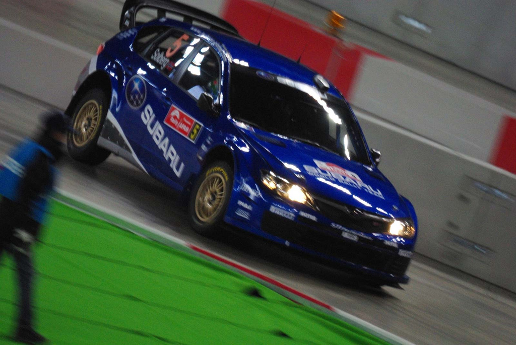 Petter Solberg driving his Subaru Impreza WRC2008 at a Sapporo Dome super special stage of the 2008 Rally Japan.